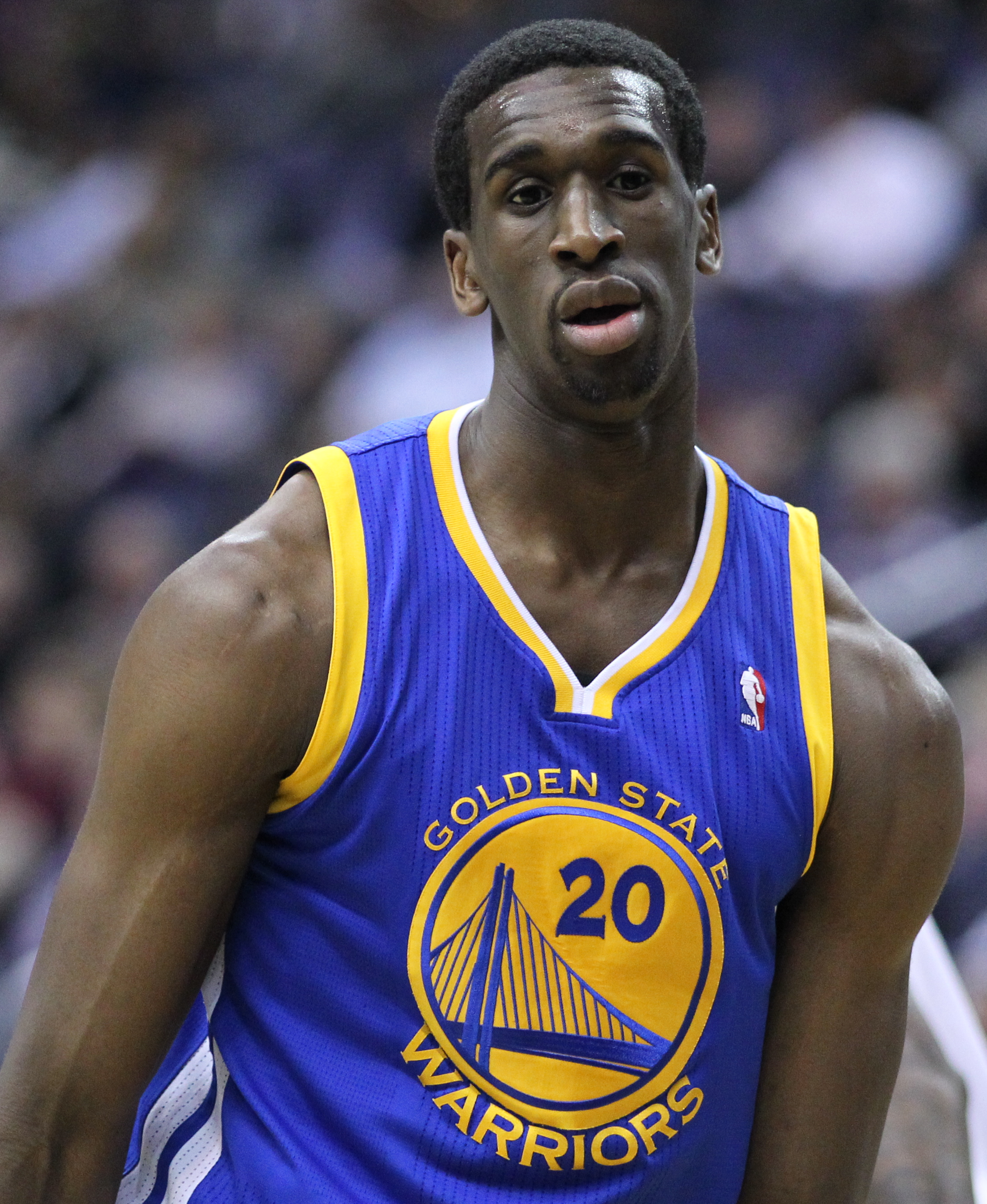 Wizards v/s Warriors 03/02/11